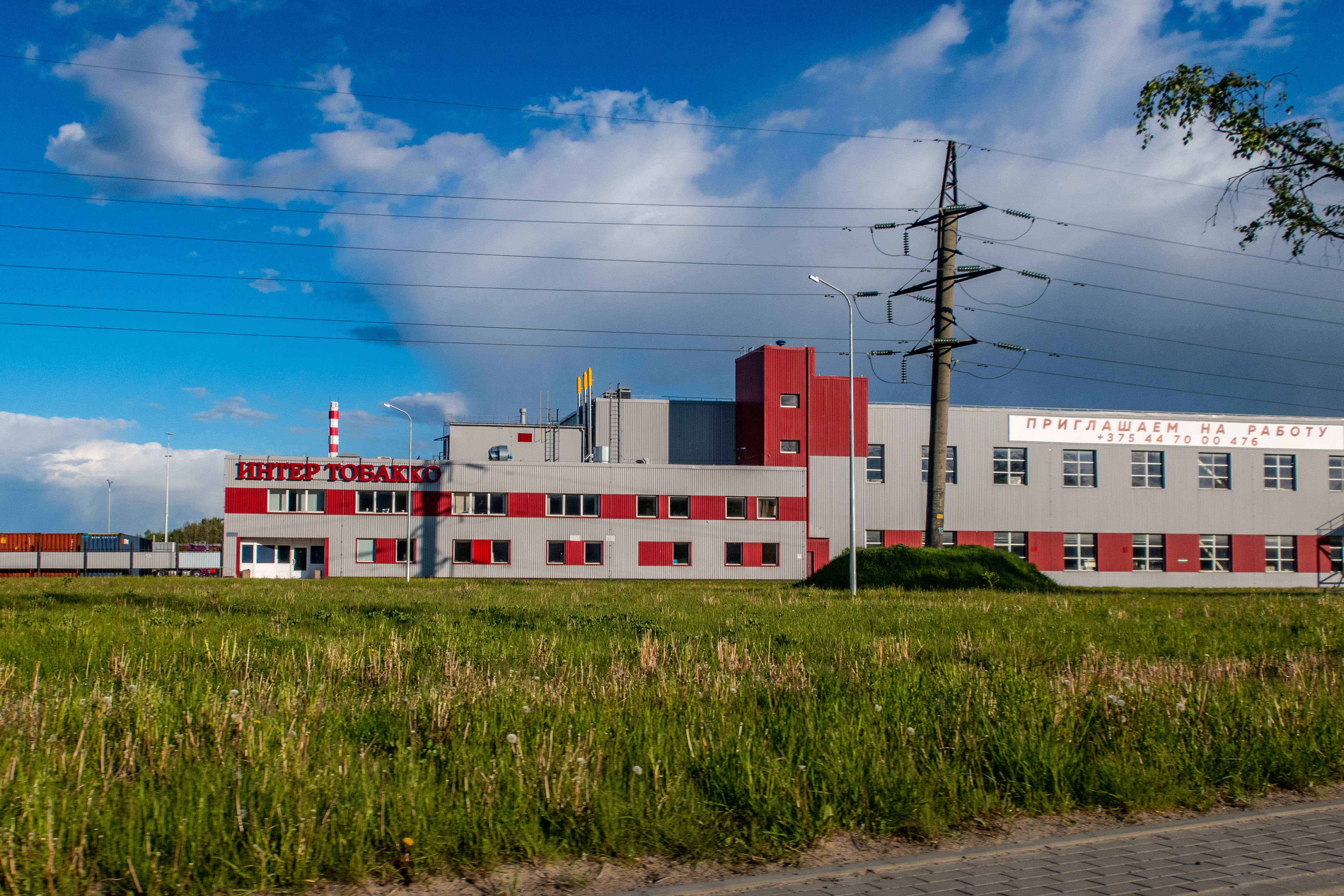 "Inter tobacco" cigarette factory (Minsk, Belarus)